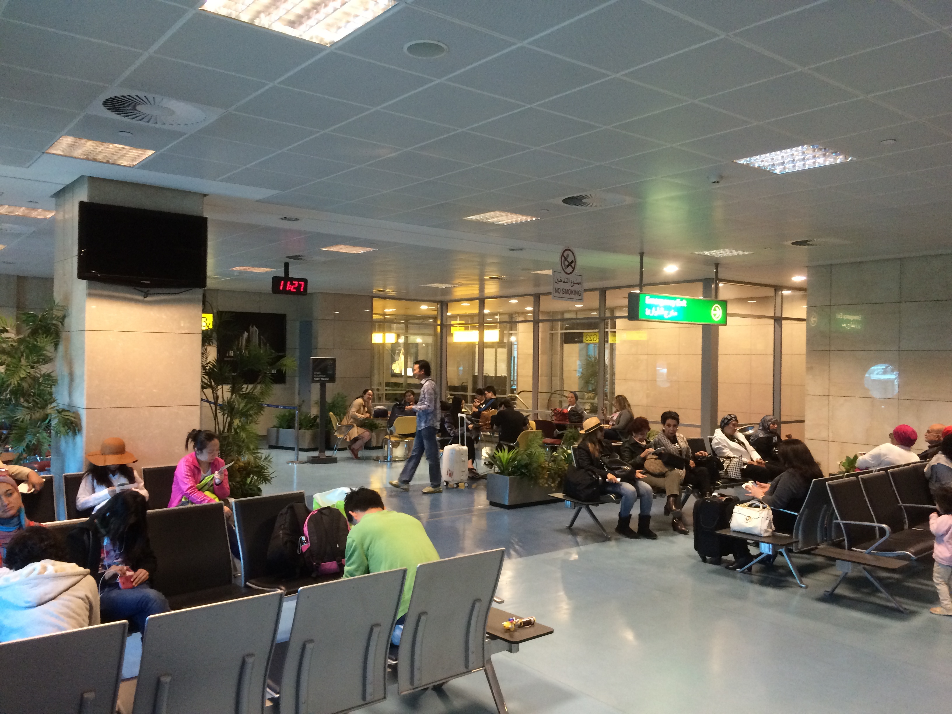 Gate at Terminal 3 Cairo International Airport